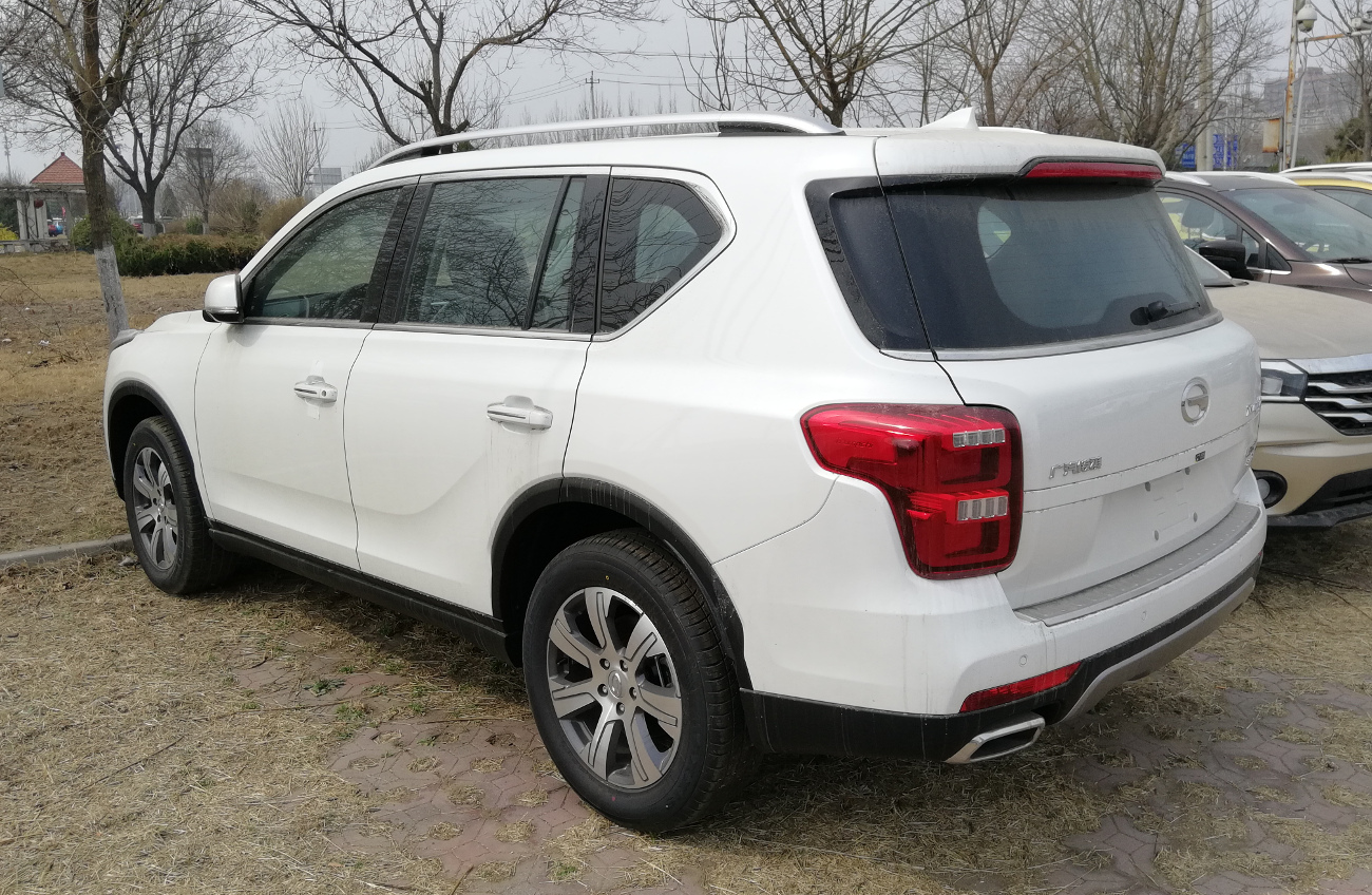 GAC Trumpchi GS7 photographed in Beijing, China.